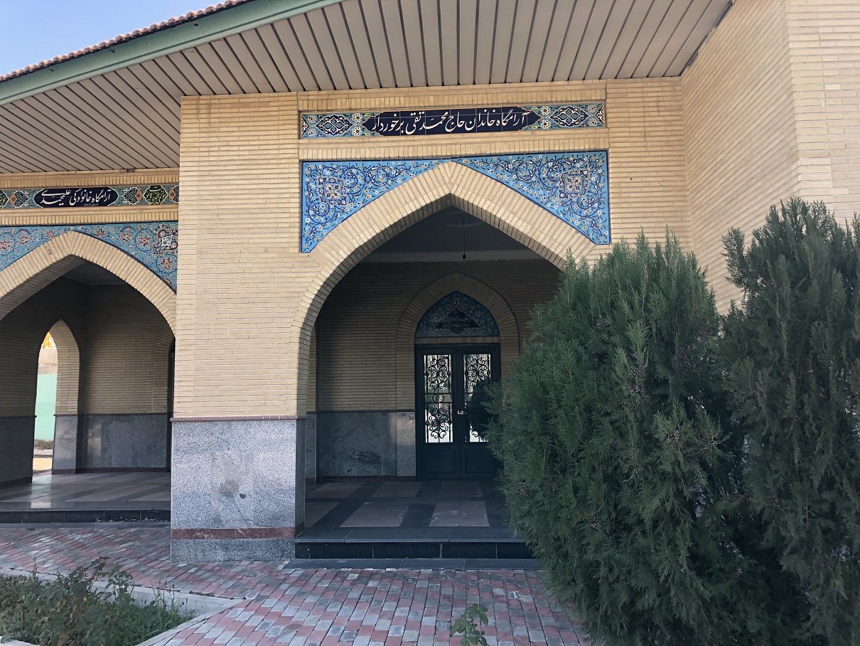 Beheshte Zahra Cemetery